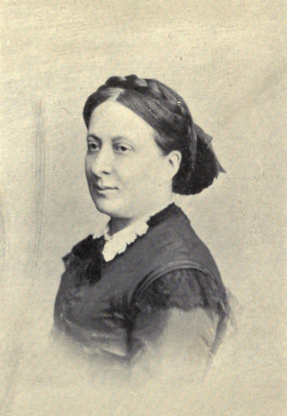 Jeanne Arnould-Plessy